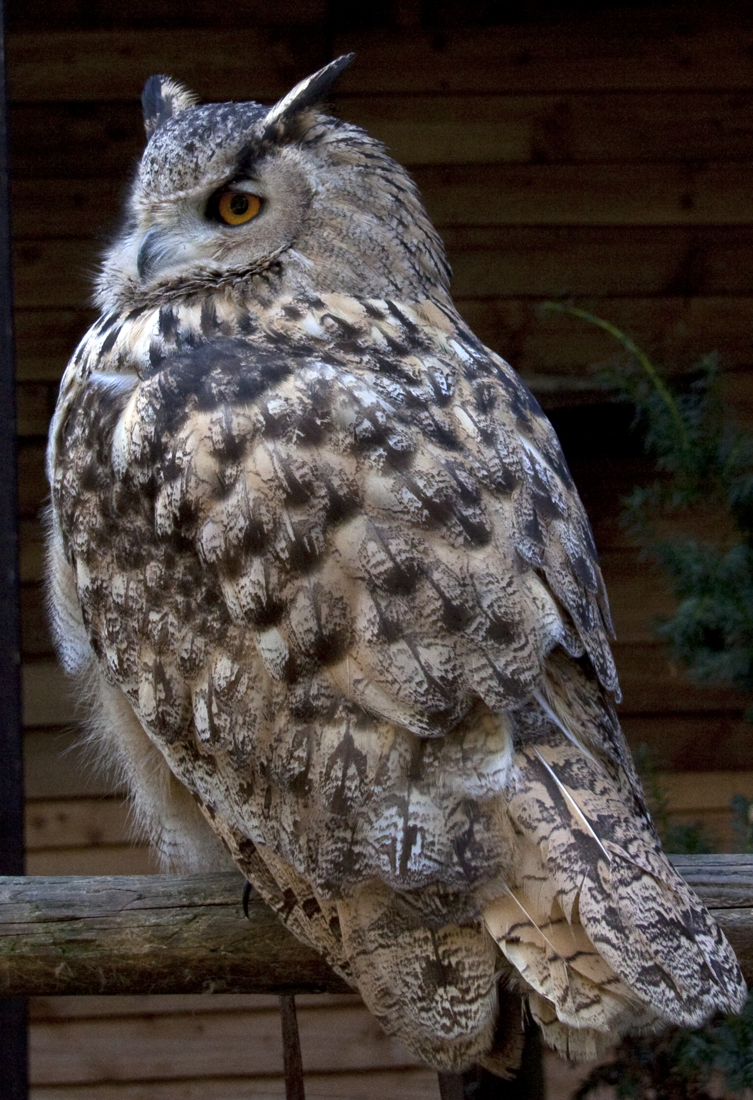 Turkmenian Eagle Owl 1